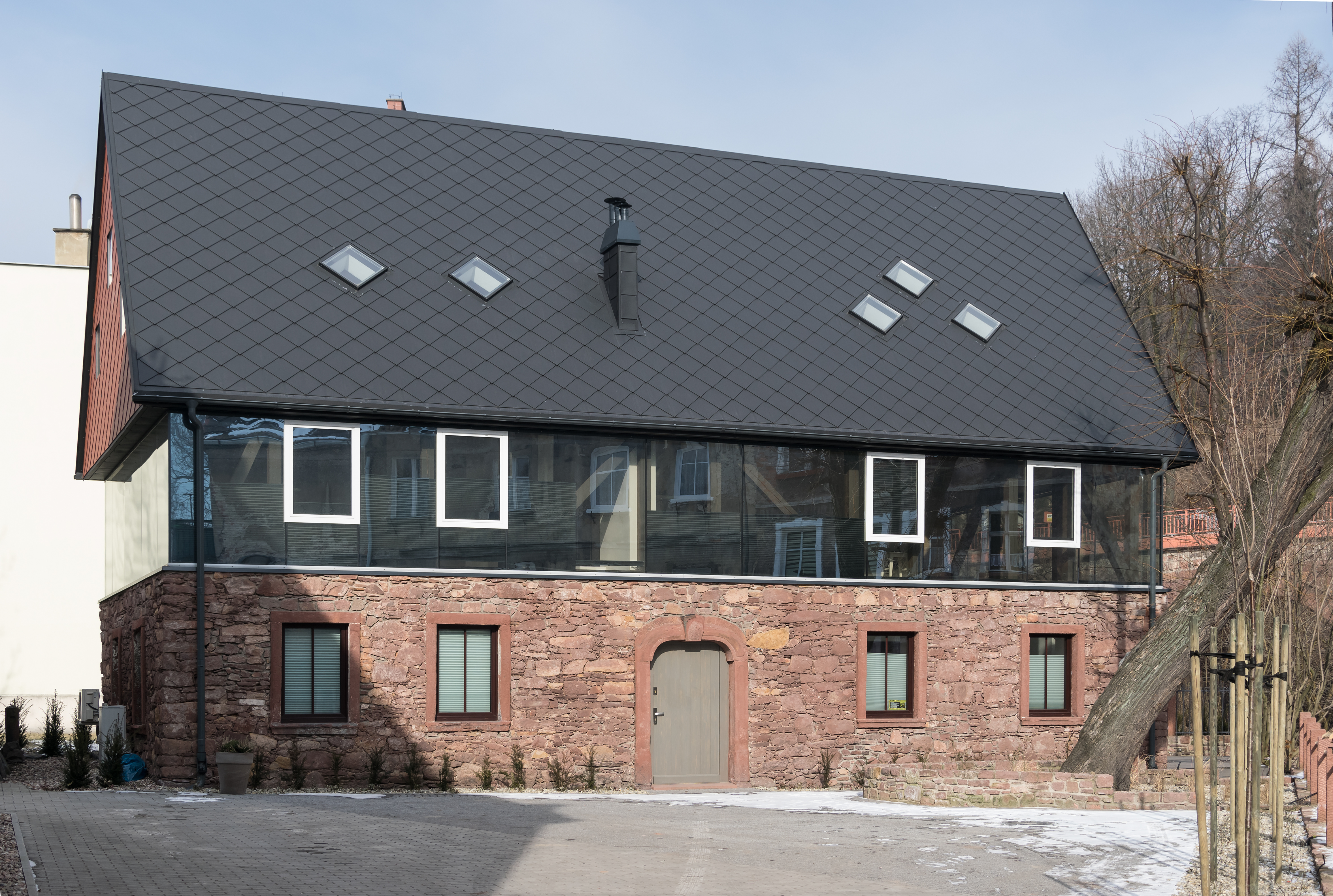 2 Cicha Street in Nowa Ruda